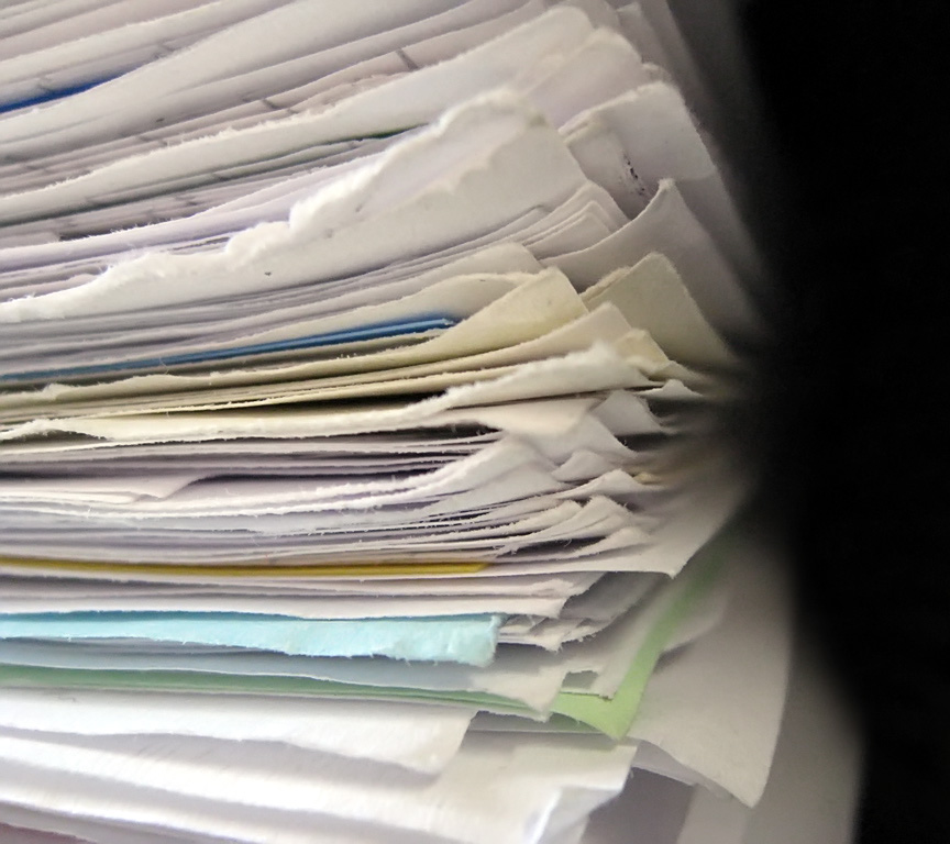 Papers/document pile.